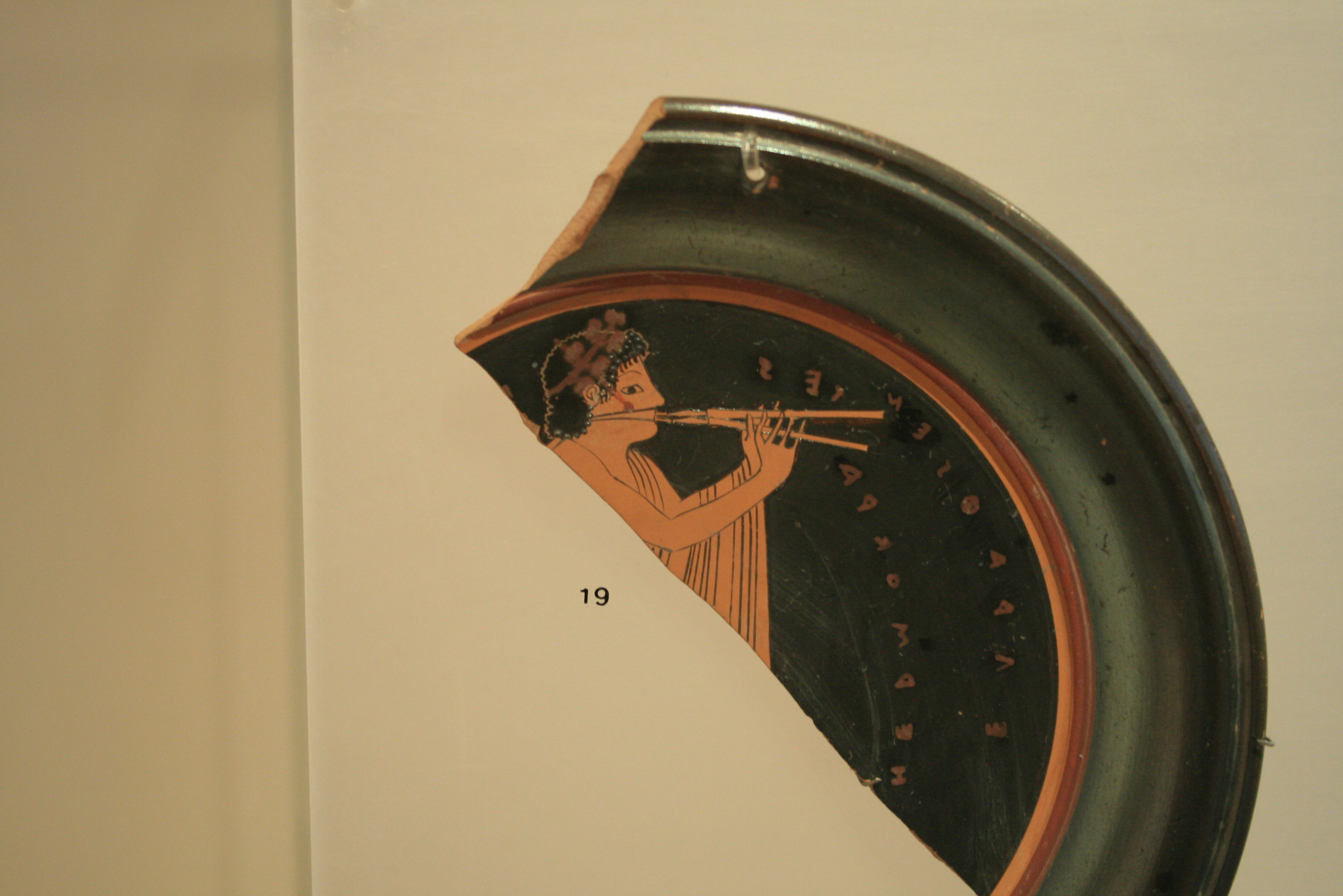 Diaulos. Archeological Museum. Athens.